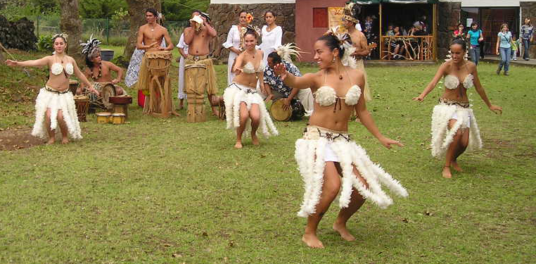 Tamure Dancers, Easter Island